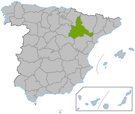 Location of the province of Zaragoza, in Spain. Basado en: ProvPont.jpg Source: Designed by Satesclop. Original picture, designed by Sobreira.